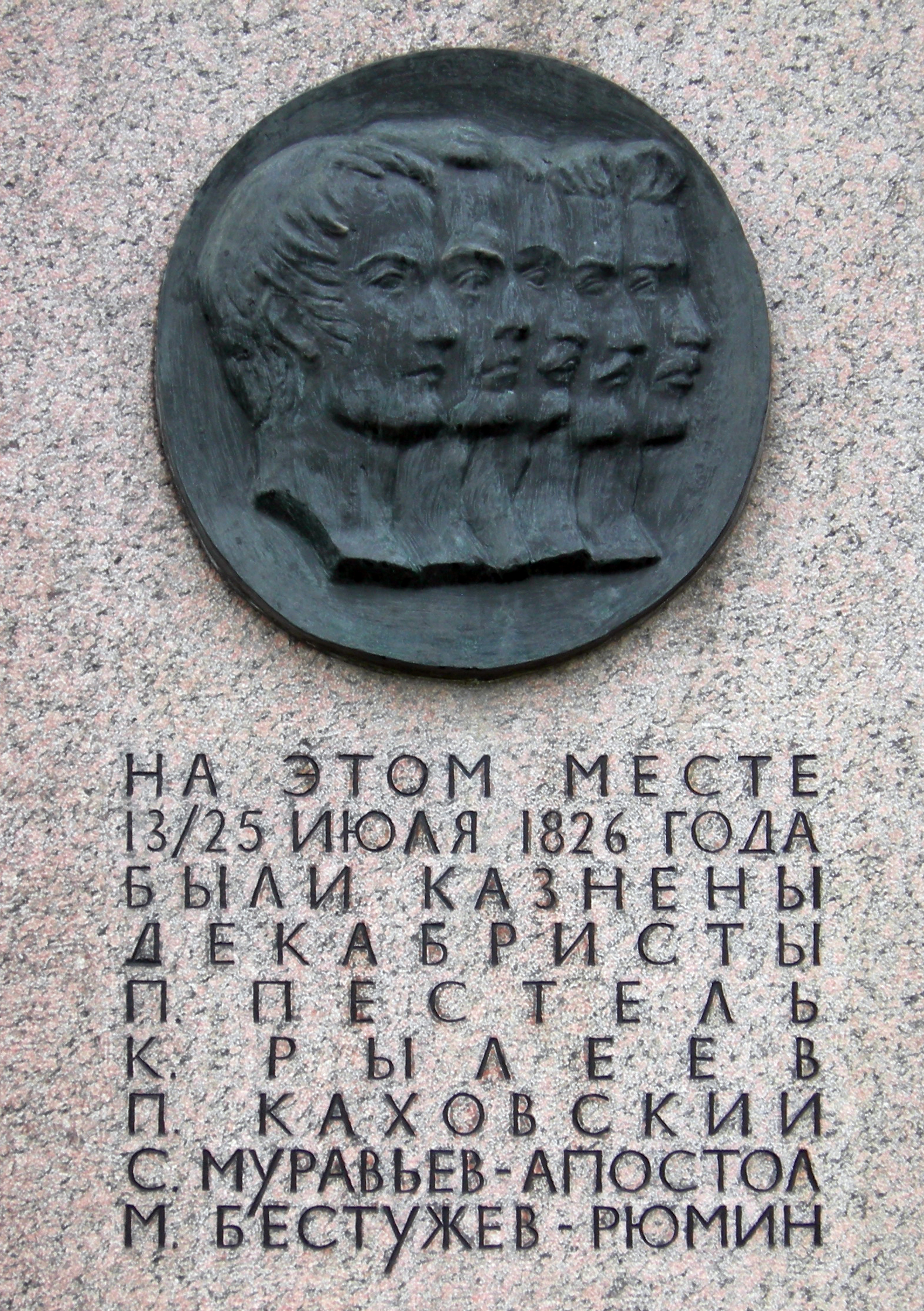 Plaque on the Decembrists' Memorial, St. Petersburg. The inscription reads: На этом месте, 13/25 Июля 1826, года были казнены Декабристы П. Пестель, К. Рылеев, П. Каховский, С. Муравьев-Апостол, М. бестужев-Рюмин. (